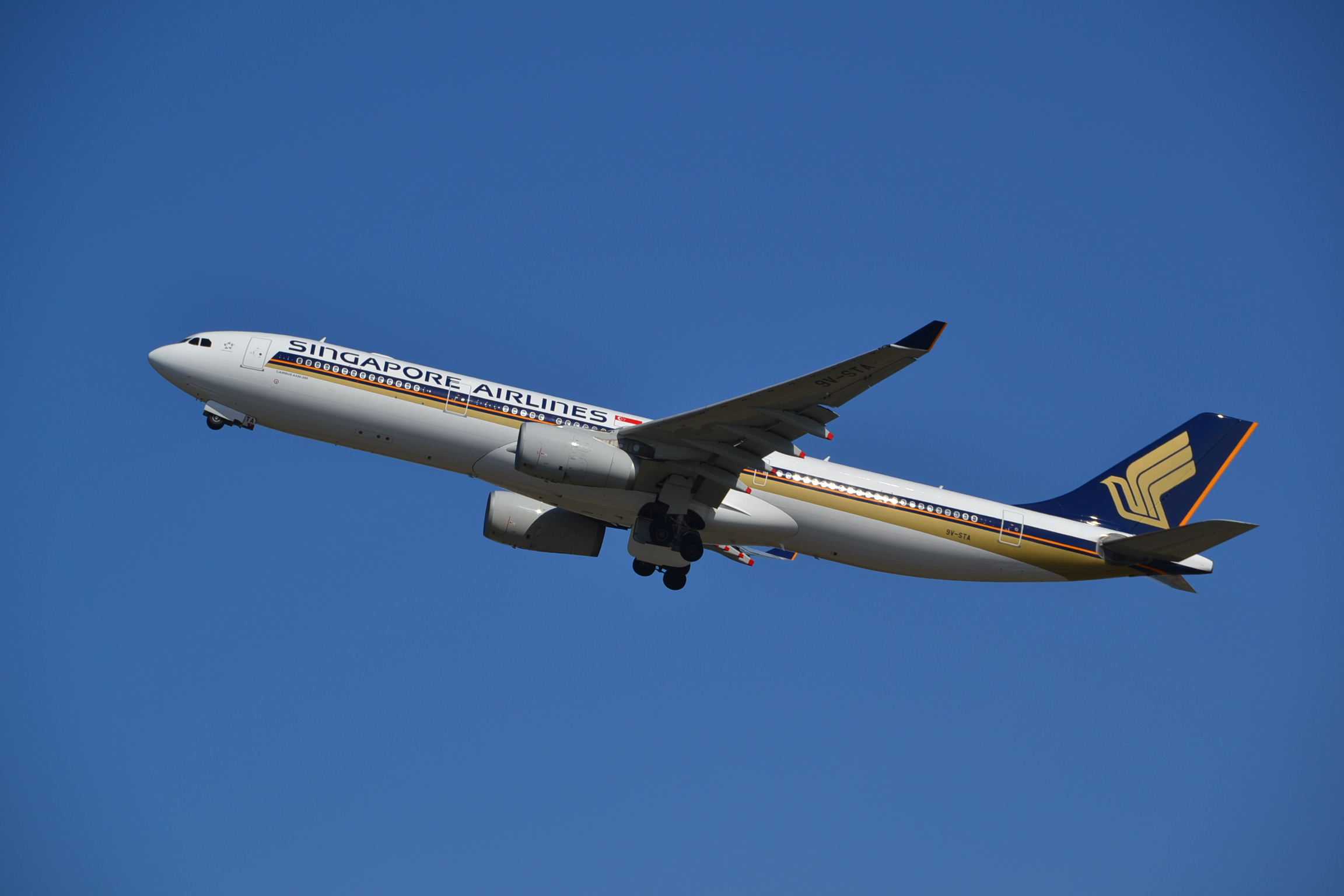 Airbus A330 of Singapore Airlines departing rwy.01 at Brisbane-BNE,QLD,Australia,14/11/14.